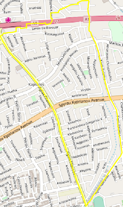 Map of Kapsalos.